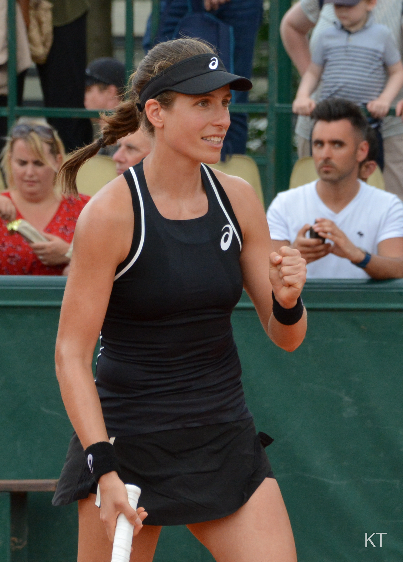 Mixed doubles with Dom Inglot against Fiona Ferro & Evan Furness. Jo & Dom won 6-4, 6-3. Day 5 of Roland Garros 2018.